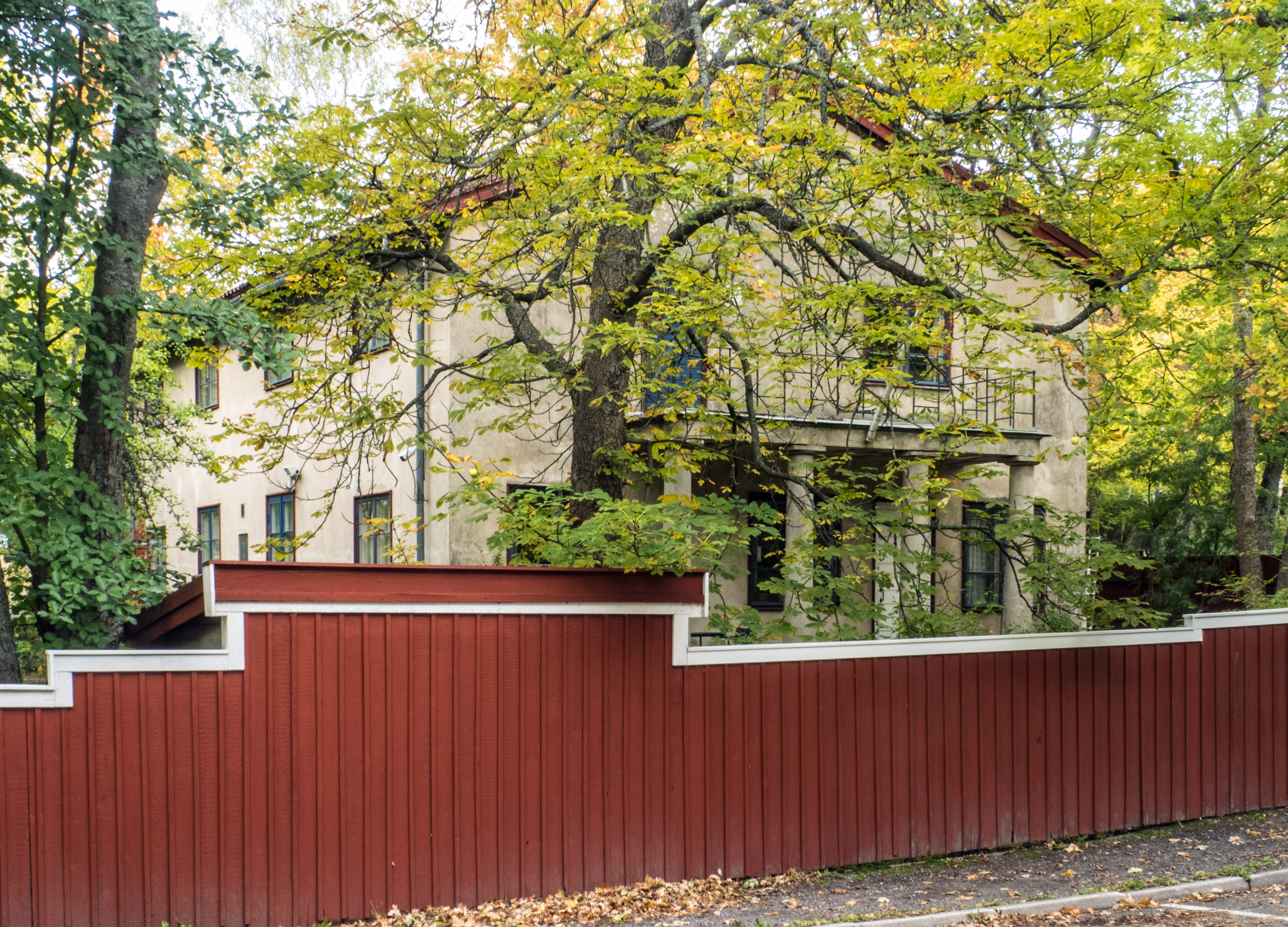 Casa Haartman in Naantali, Finland. Architect Erik Bryggman, 1926.